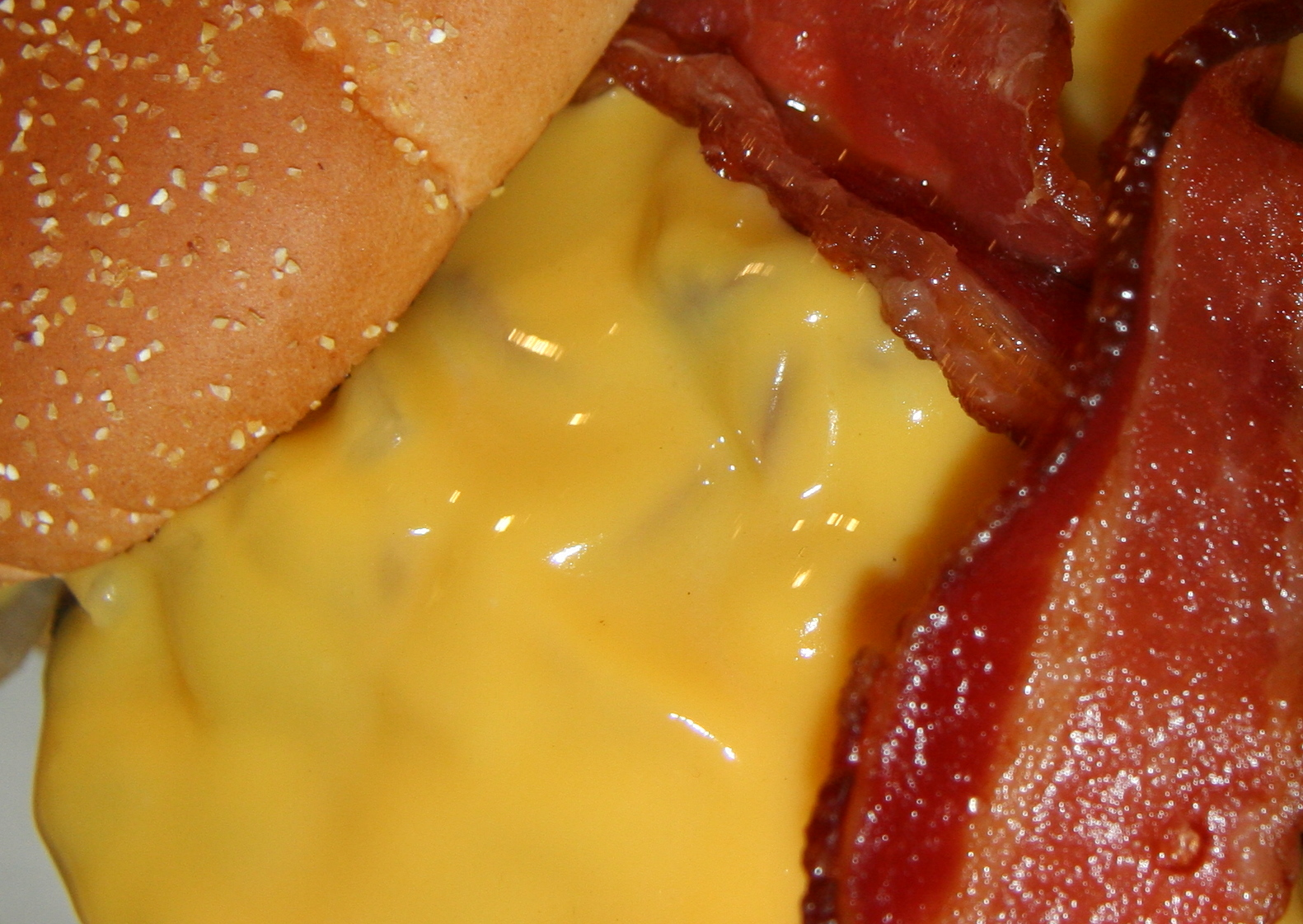 Closeup view of a burger with fried onions covered in melted Velveeta brand processed cheese topped with strips of bacon, served at Slippery's Bar in Wabasha, Minnesota